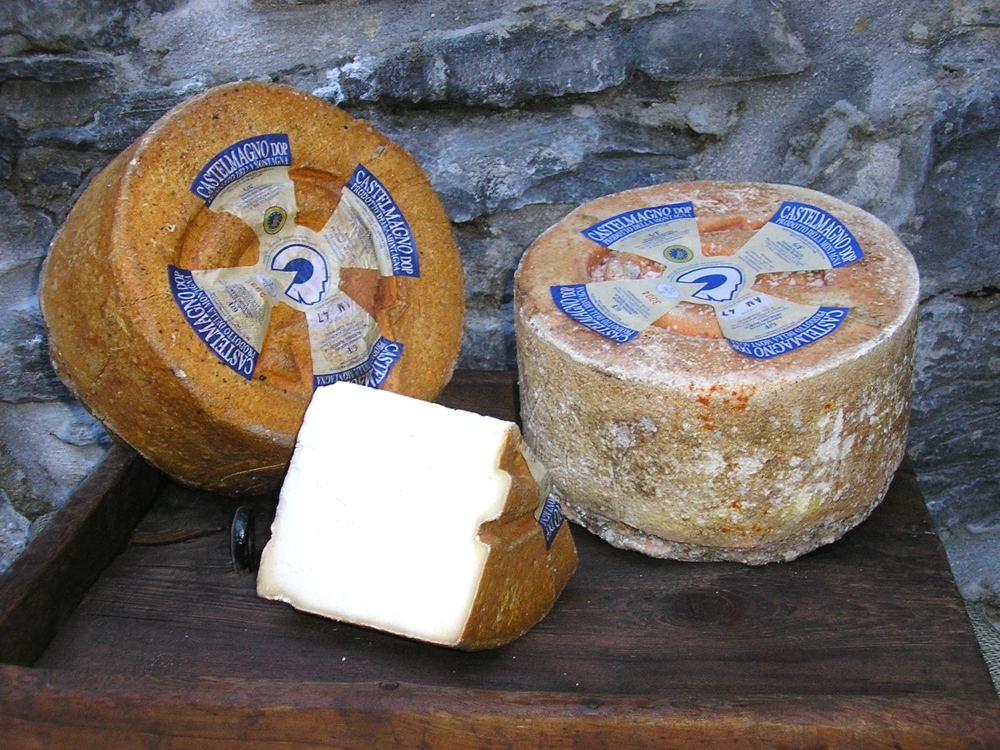 Cheese Castelmagno by kind permission from the Boutega Ousitana of Castelmagno (Italy)